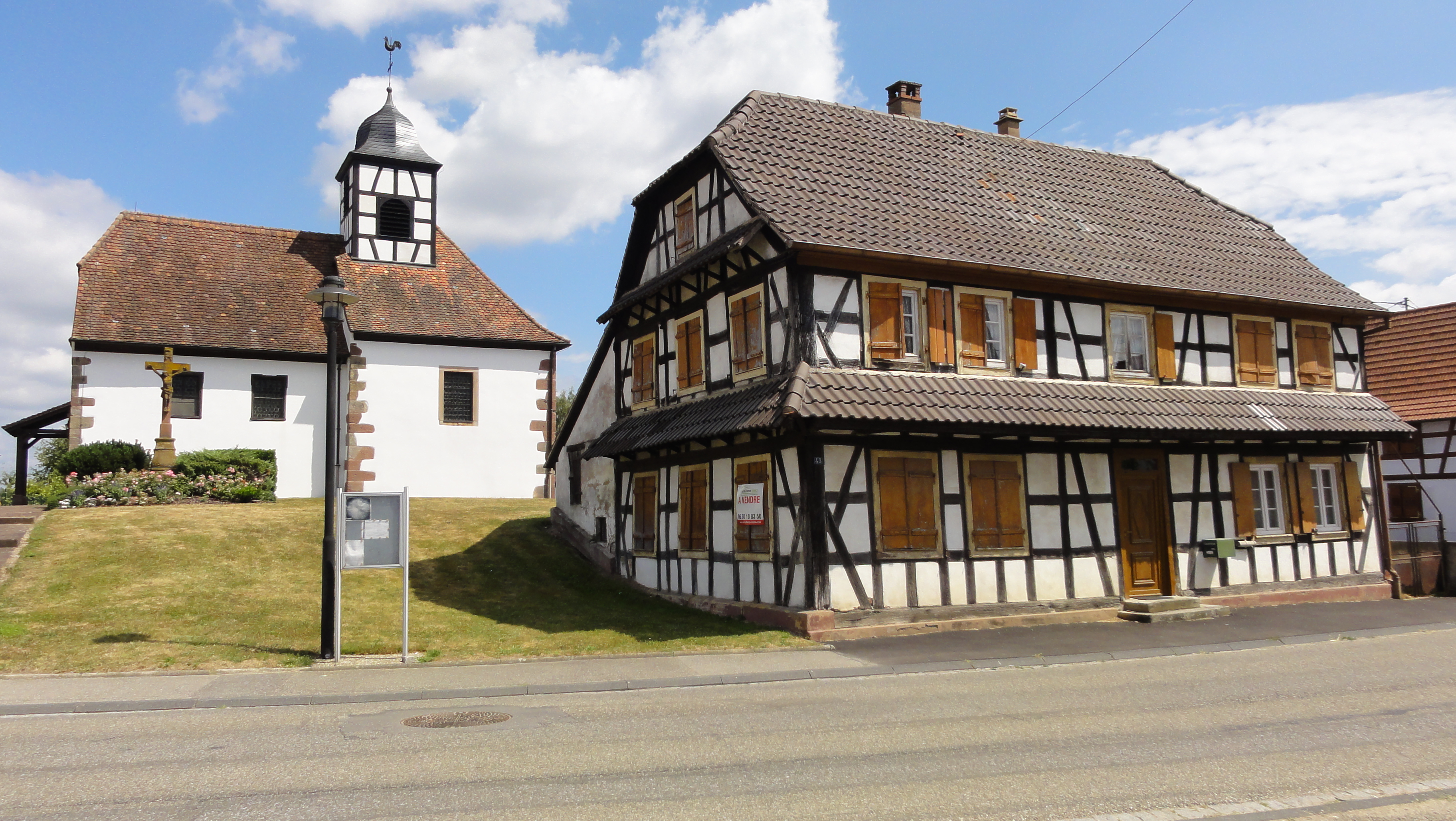 Alsace, Bas-Rhin, Hoffen, Leiterswiller, Église protestante (XVe-XVIIe-XVIIIe): It is indexed in the Base Mérimée, a database of architectural heritage maintained by the French Ministry of Culture, under the references PA00084750 and IA00118874 . Ancienne école (XIXe), 43 rue des Eglises: .